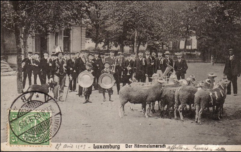 Luxembourg. Unknown Band, 1909